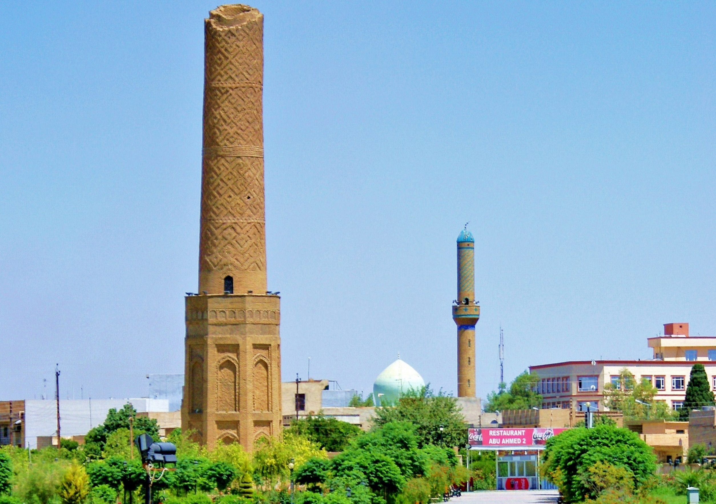 Old Minaret